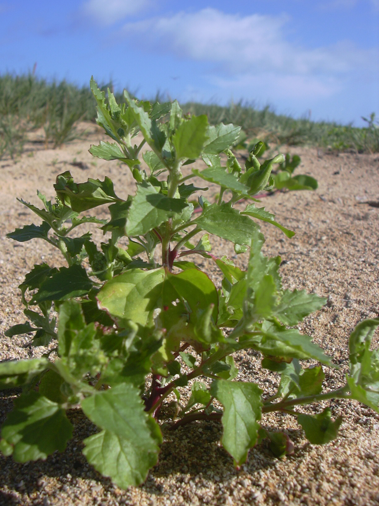 Chenopodium murale (habit). Location: Maui, Kanaha Beach